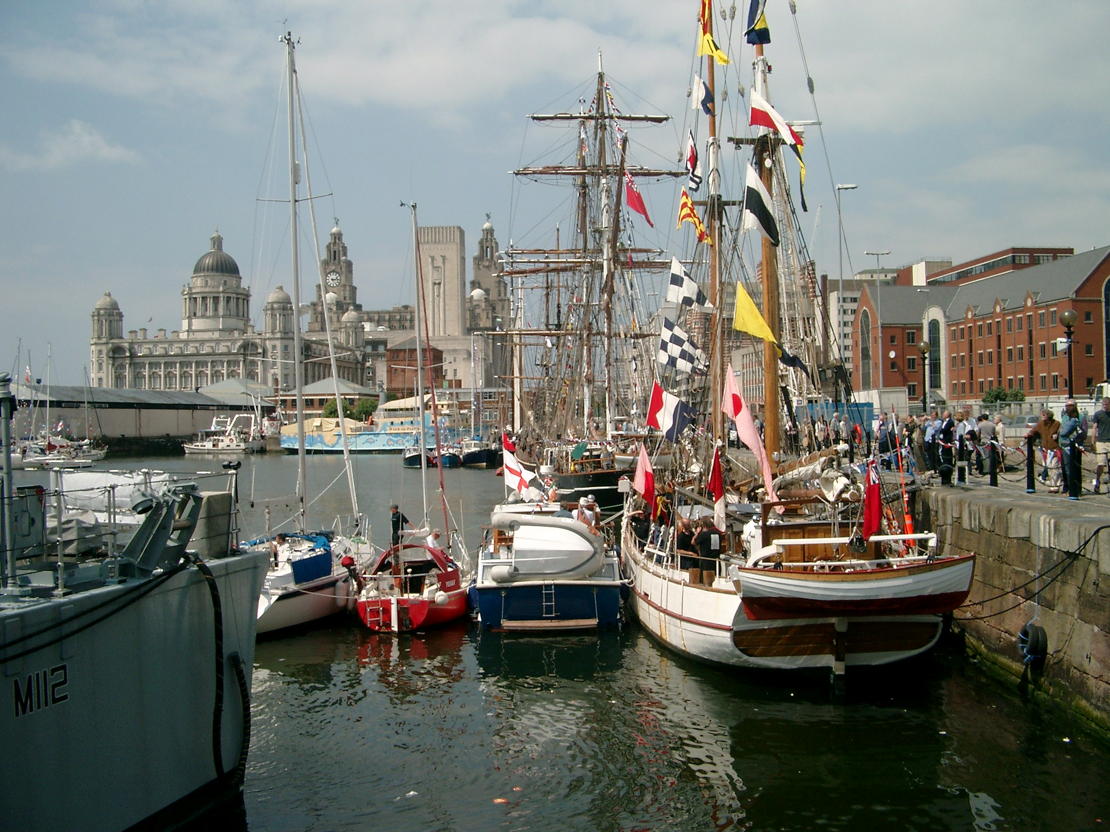 Ships at Liverpool